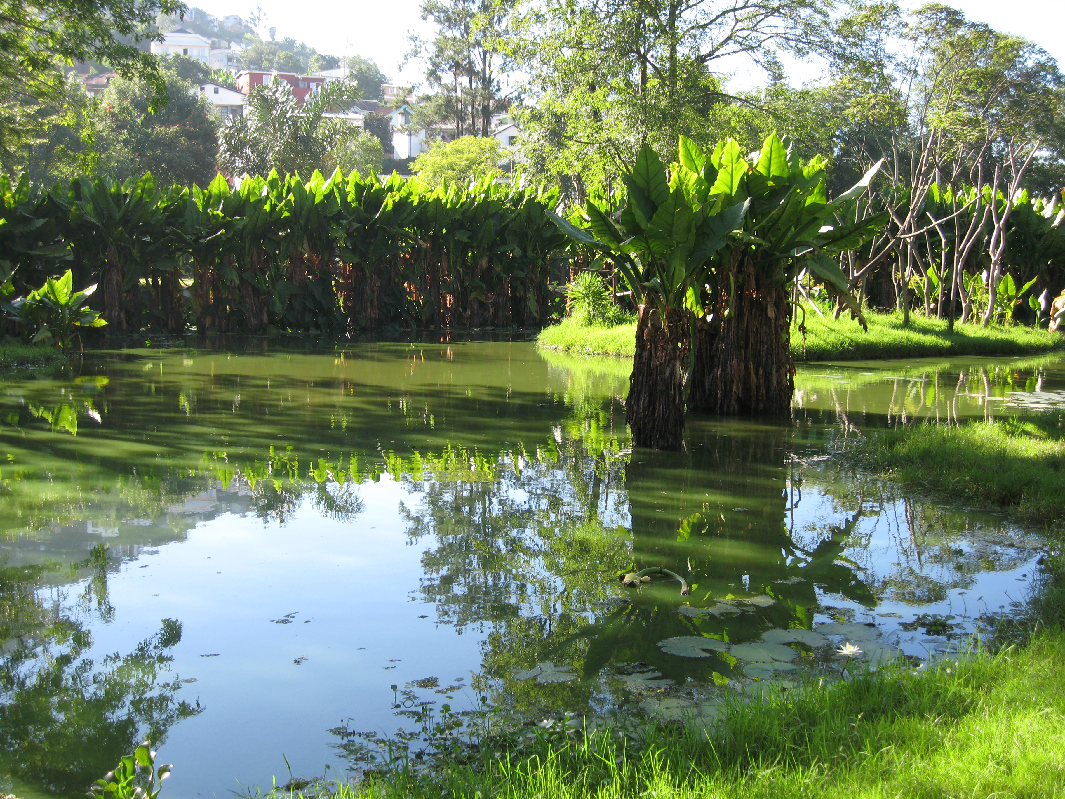 Lakes in the zoo in Anatananarivo. The tall plants are elephant's ear (Taro)